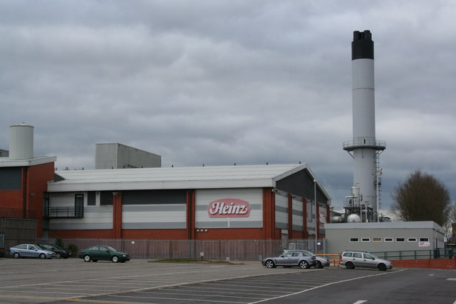 Heinz